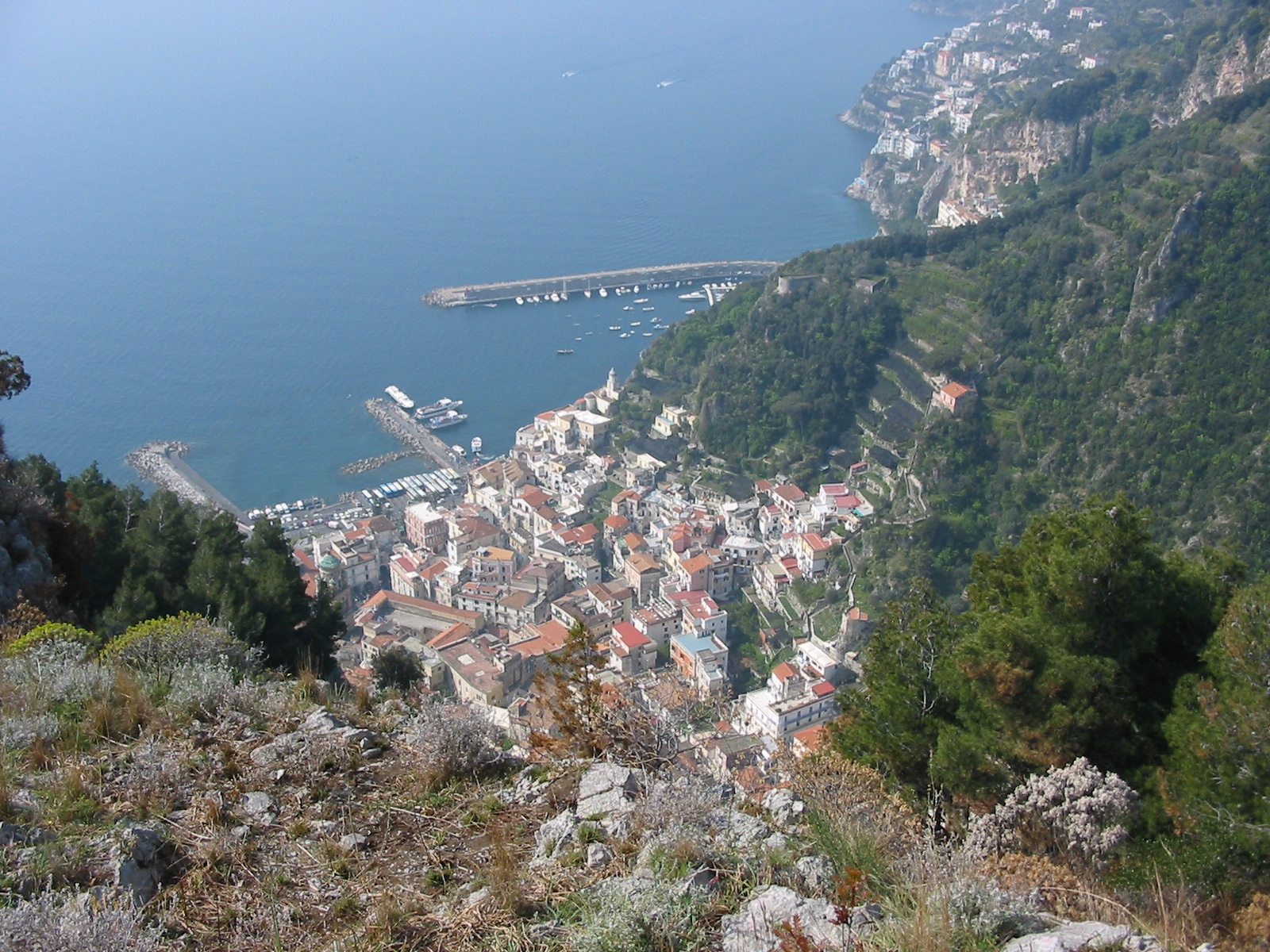 Amalfi